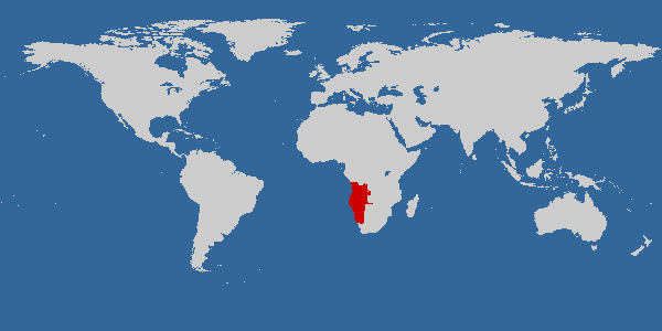 Peachfaced lovebird distribution